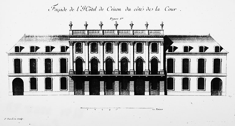 Design by Germain Boffrand for the Hôtel de Craon in Nancy